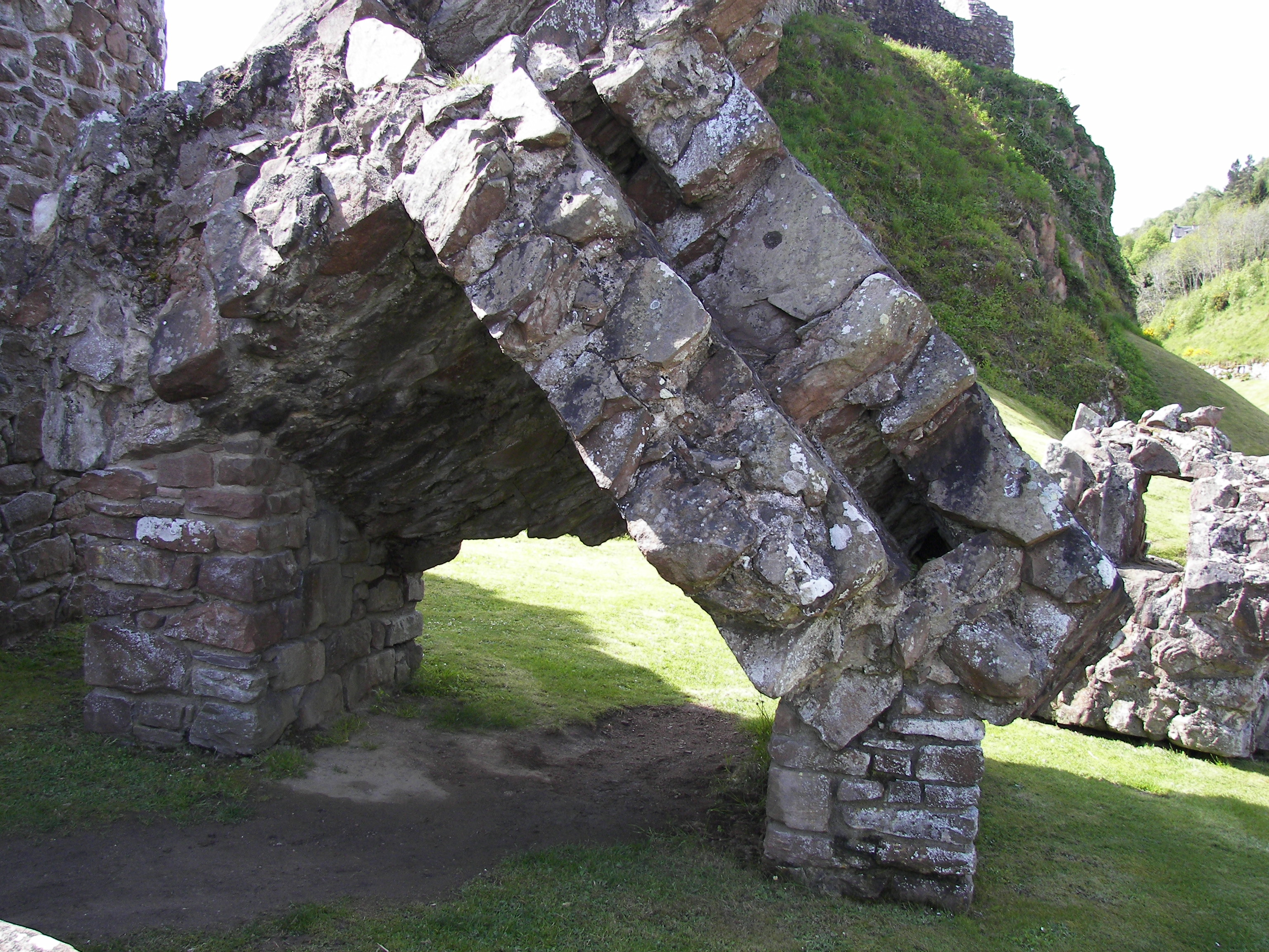 Structure near the Gatehouse of Urquhart Castle.